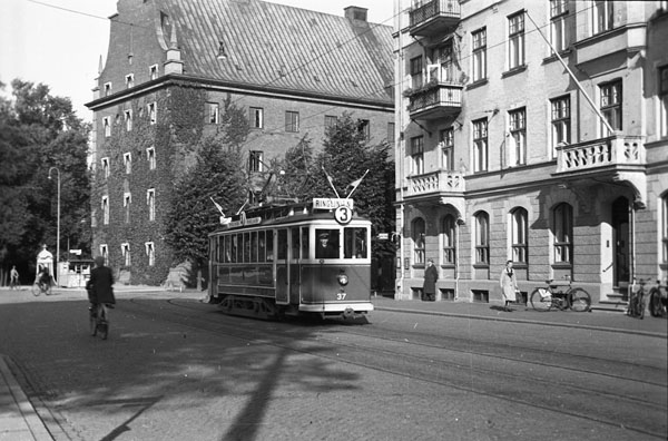 Tram in Malmö 1944. Photo Nr: 2016-1575.